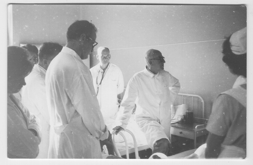 Prof. MUDr. Vratislav Jonáš and in the foreground his son MUDr. Radim Jonáš